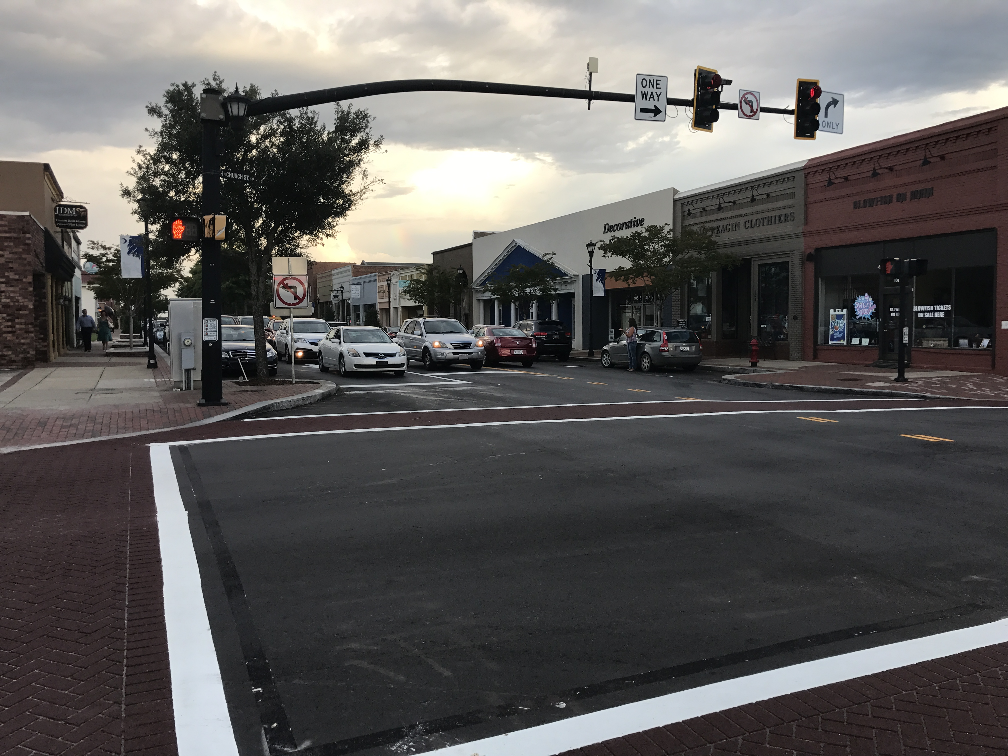 Main Street in downtown Lexington, SC